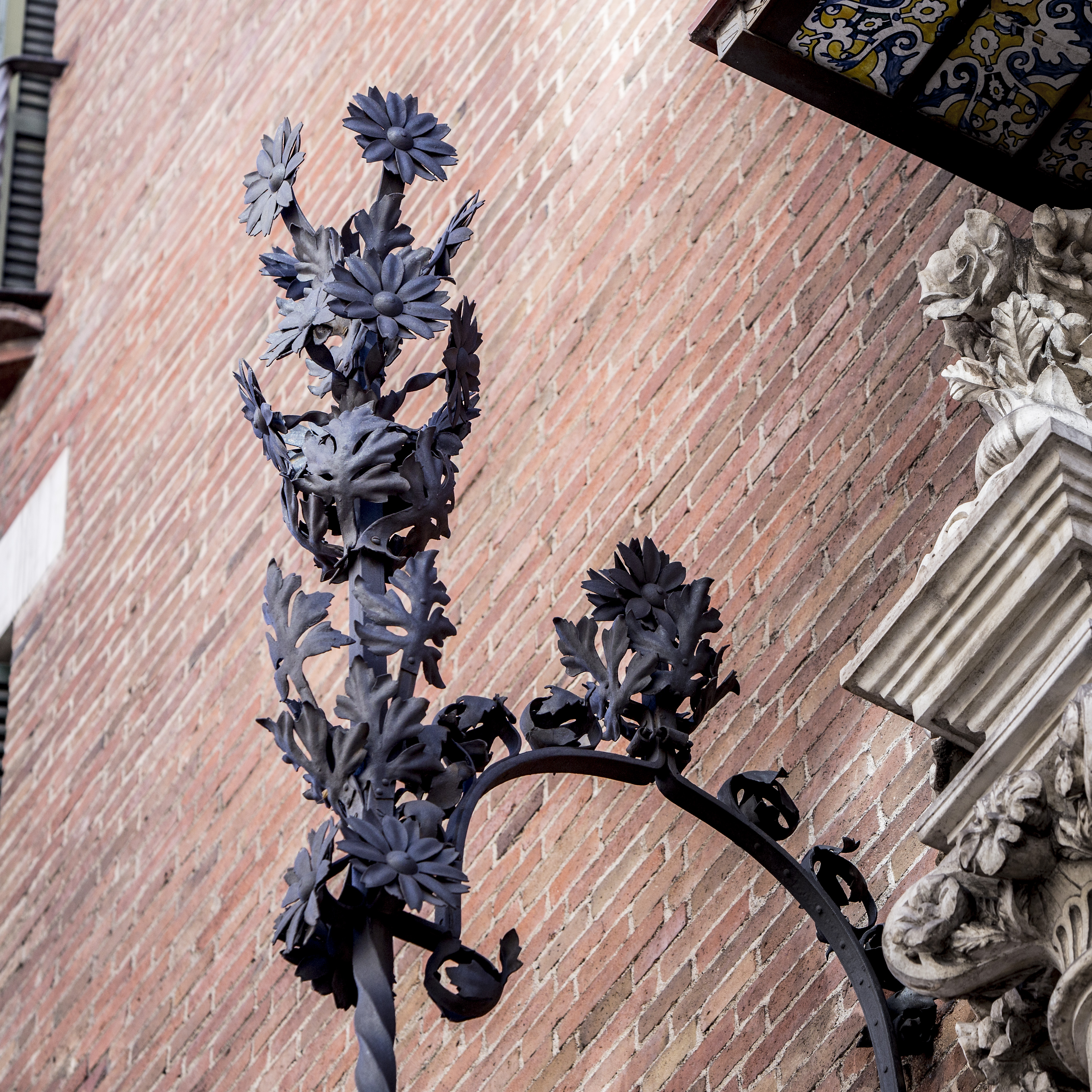 BARCELONA 19/01/2016 CASA DE LES PUNXES FOTO FERRAN NADEU